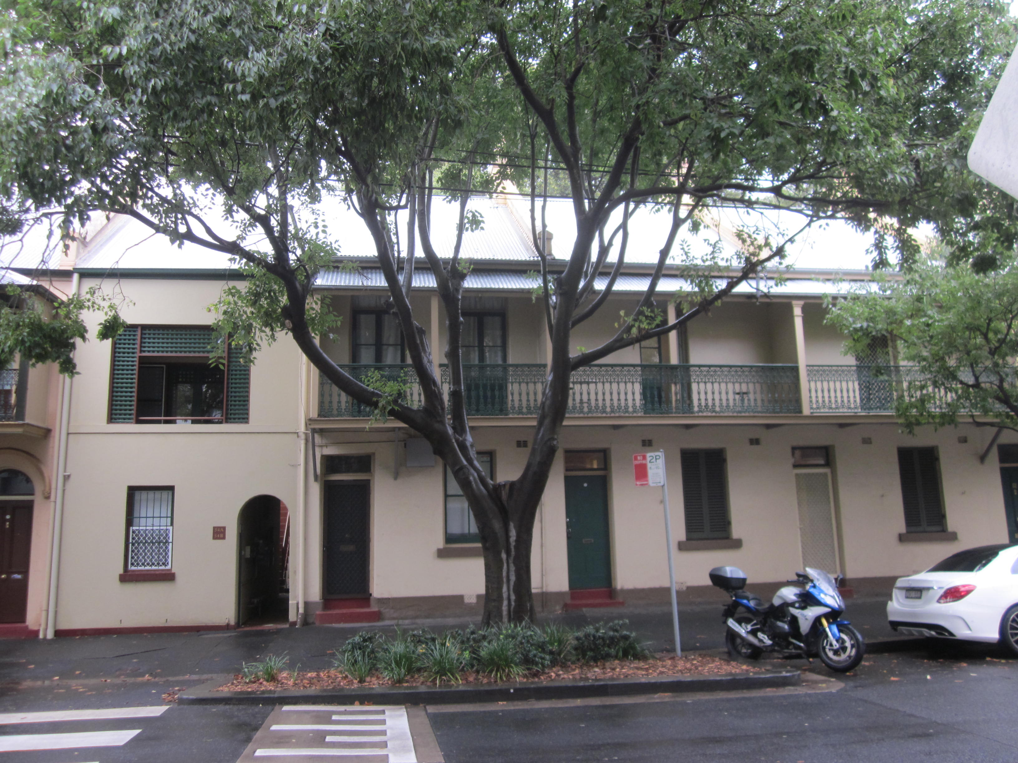 This property is listed on the New South Wales Heritage Register